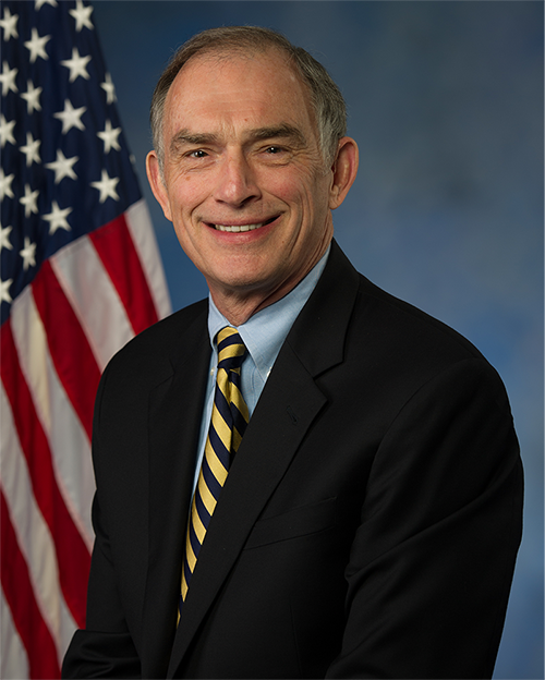 Pete Visclosky's official Congress photo